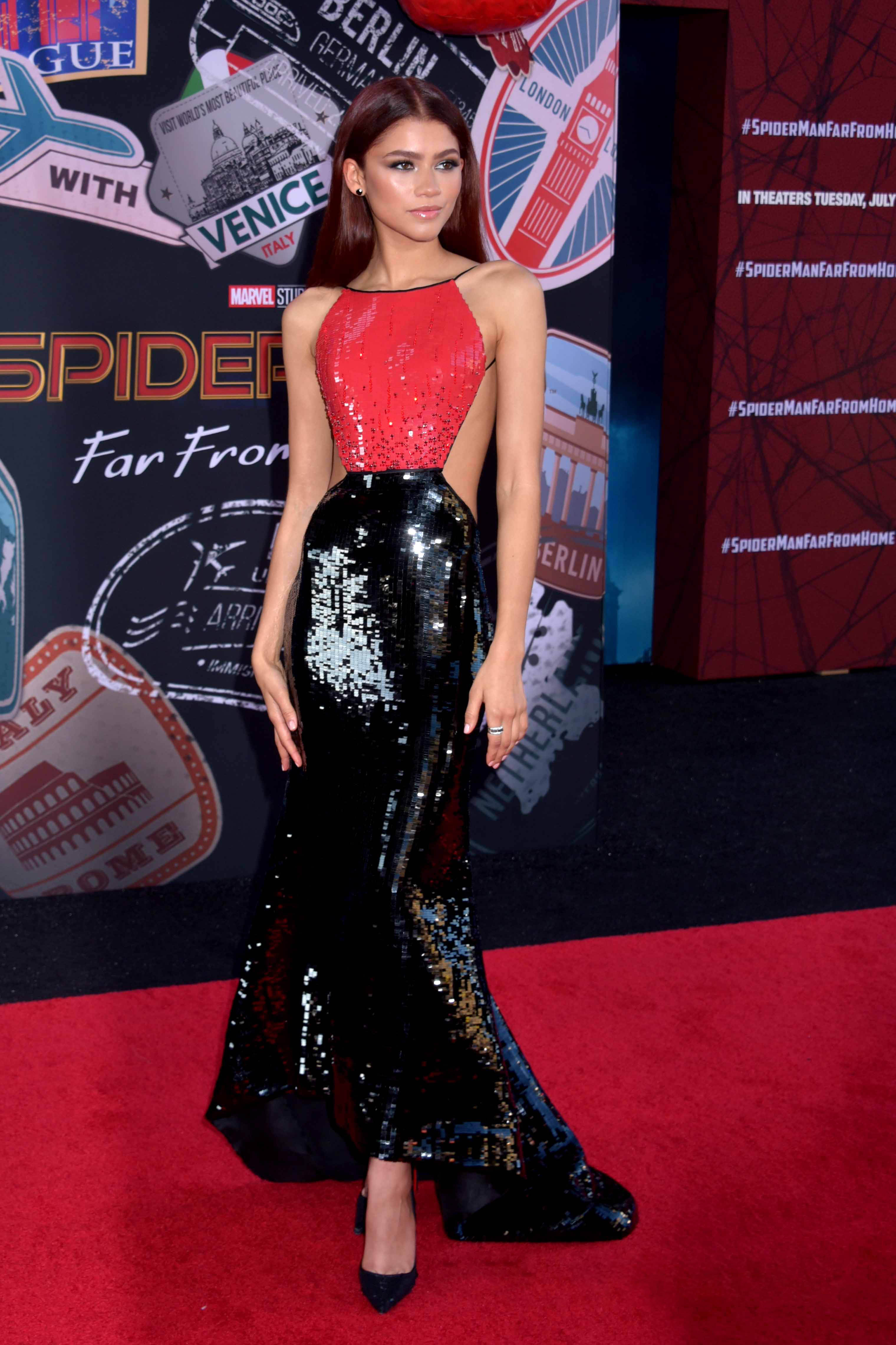 Zendaya arrives for the premiere of " Spiderman: Far From Home" in Hollywood, California on June 26, 2019 - Photo by Glenn Francis of